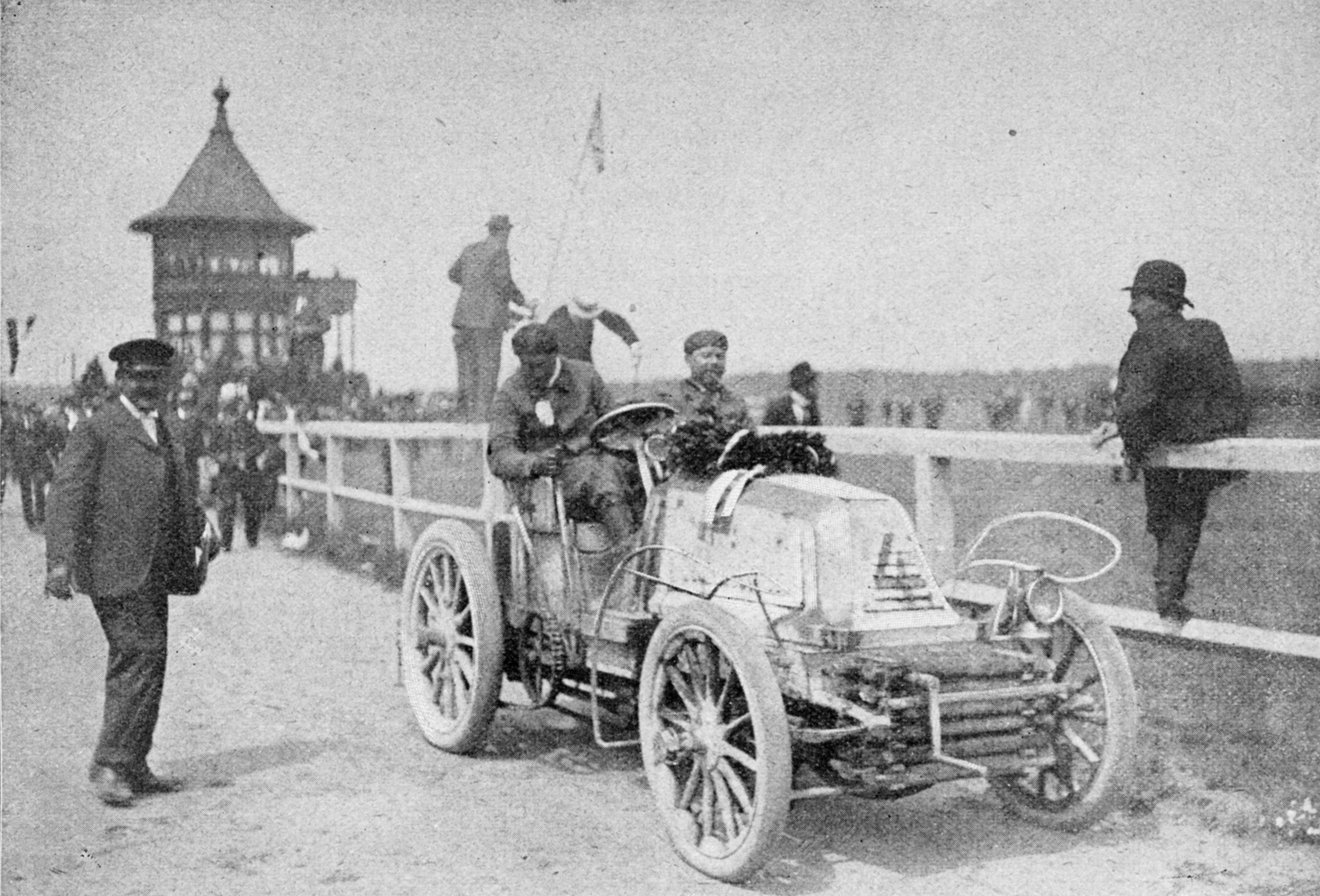 Picture of the automobile trip Paris-Berlin. Fournier wins the race over the Westend Trotting Course